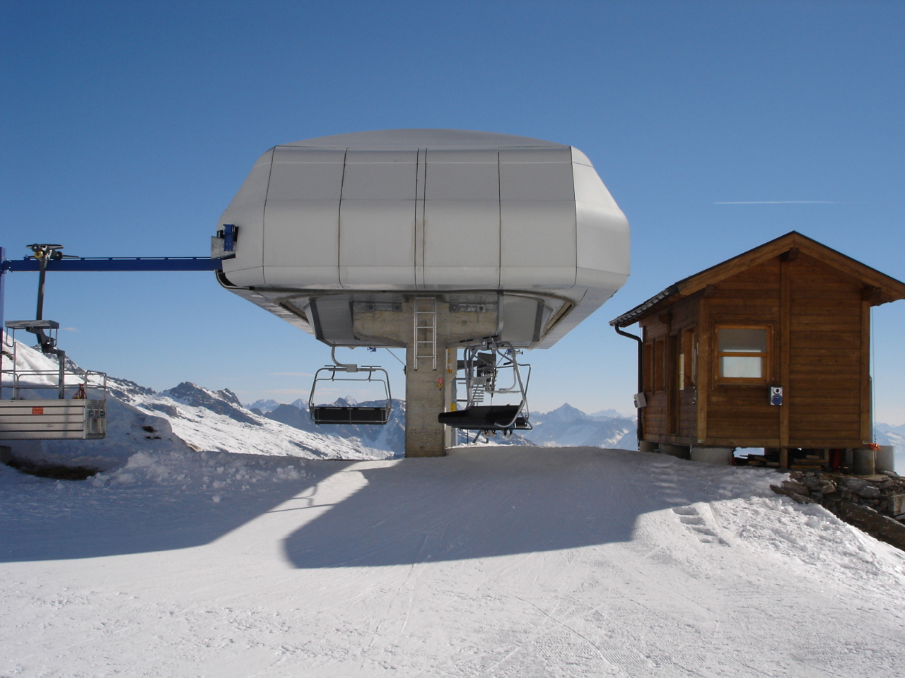 "Sonnenberg" chairlift upper station at Bosco Gurin.